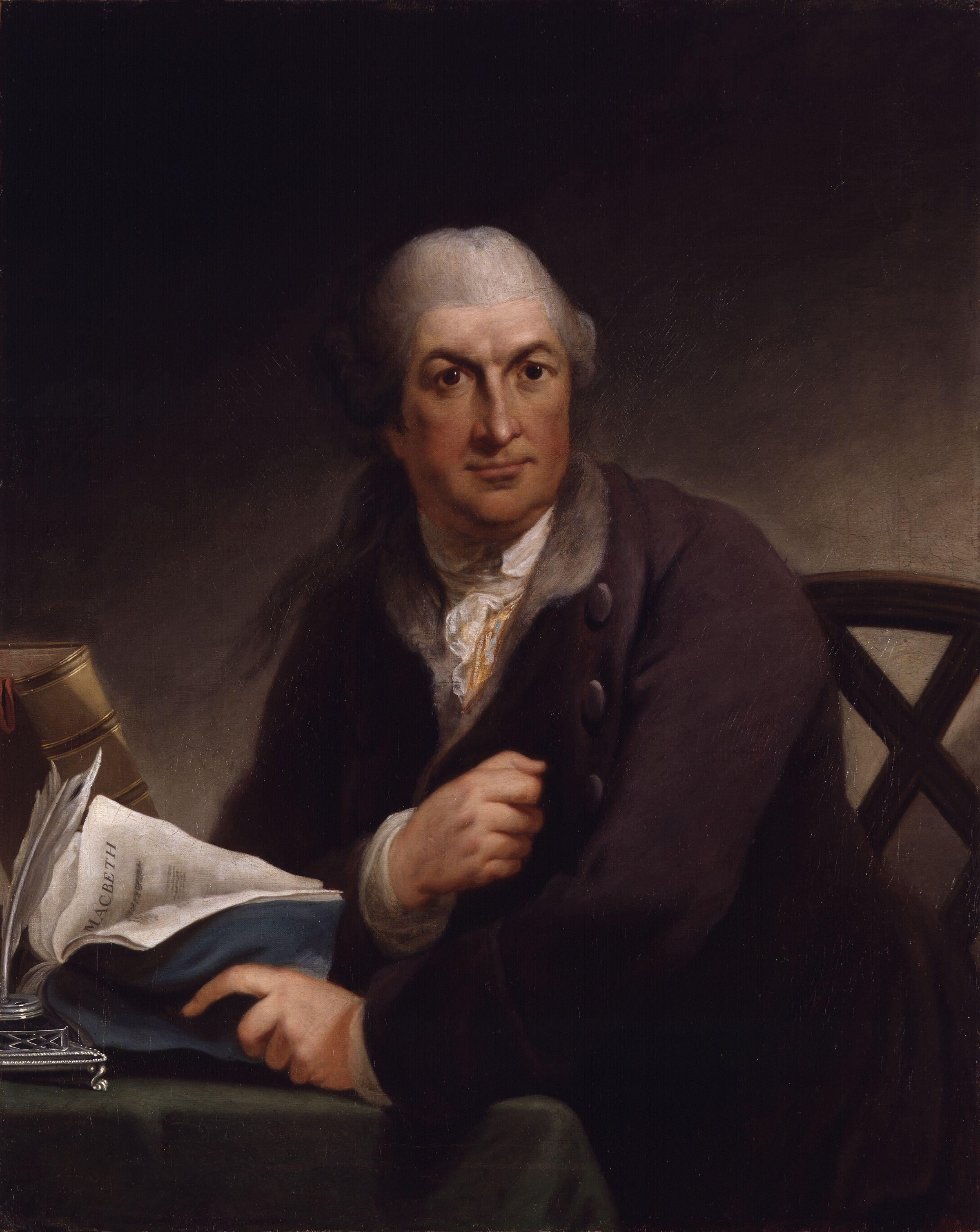 David Garrick, by Robert Edge Pine (died 1793). All images in this batch have been confirmed as author died before 1939 according to the official death date listed by the NPG.